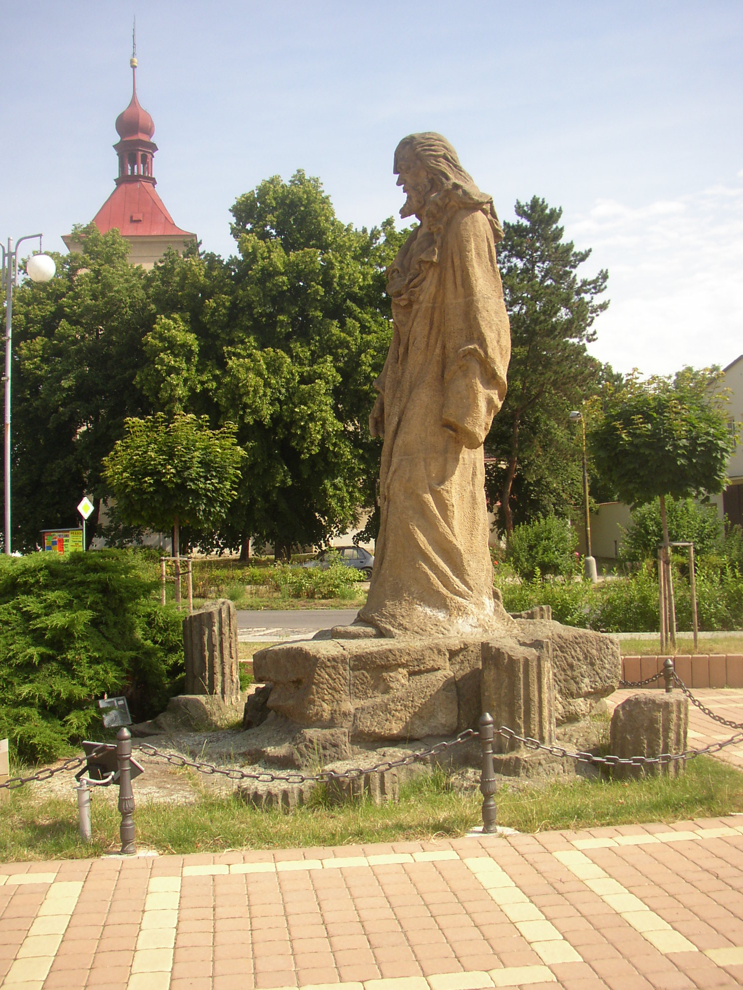 Bohušovice nad Ohří, Litoměřice District, Czech Republic. Jan Hus memorial in Hus Square, a 1911 work by sculptor Ladislav Beneš. A view of the left side (from the south), in the background tower of SS Procopius and Nicholas church.